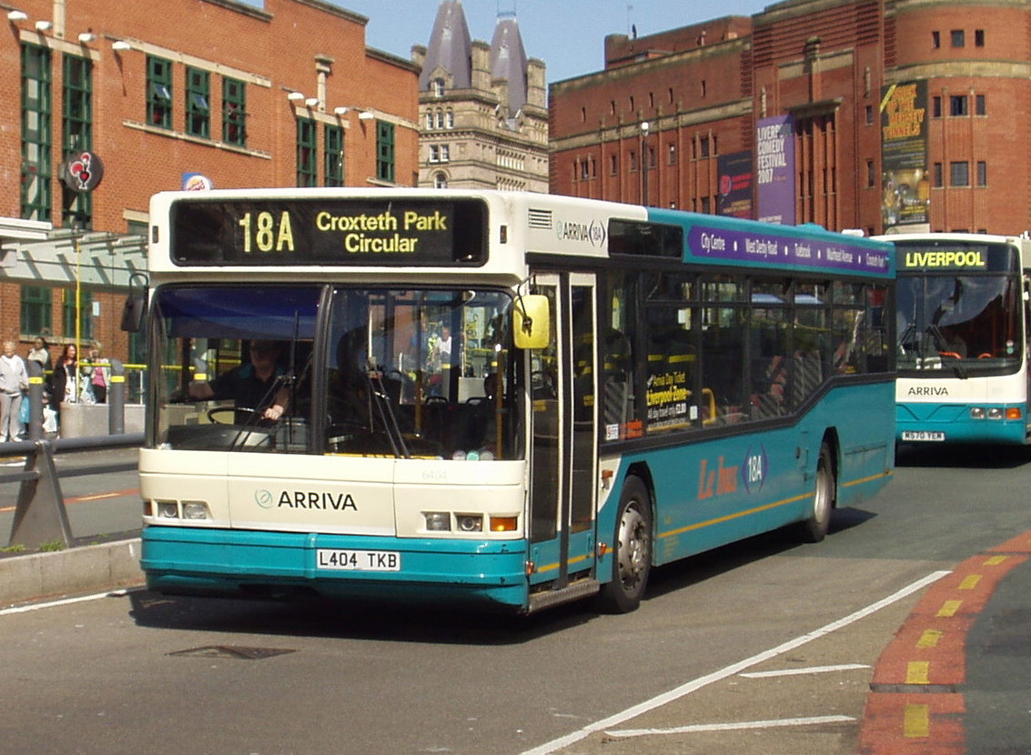 A Neoplan N4016 low floor bus in the Arriva North West and Wales fleet, pictured in Queen Square bus station, Liverpool. Year built 1994?